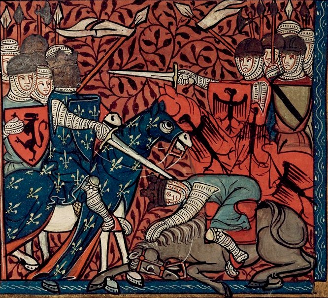 Louis the Pious and death of Marcoman of Brittany